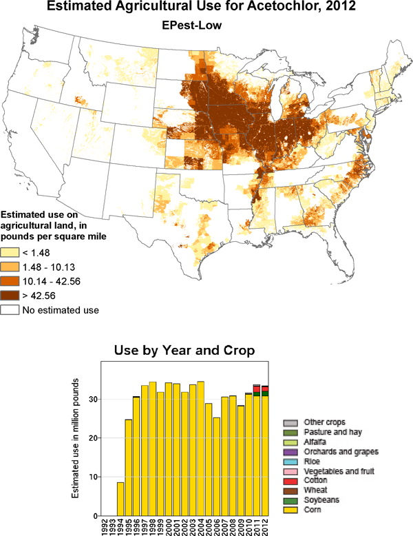 Acetochlor map of use, USA, 2012 (estimated)